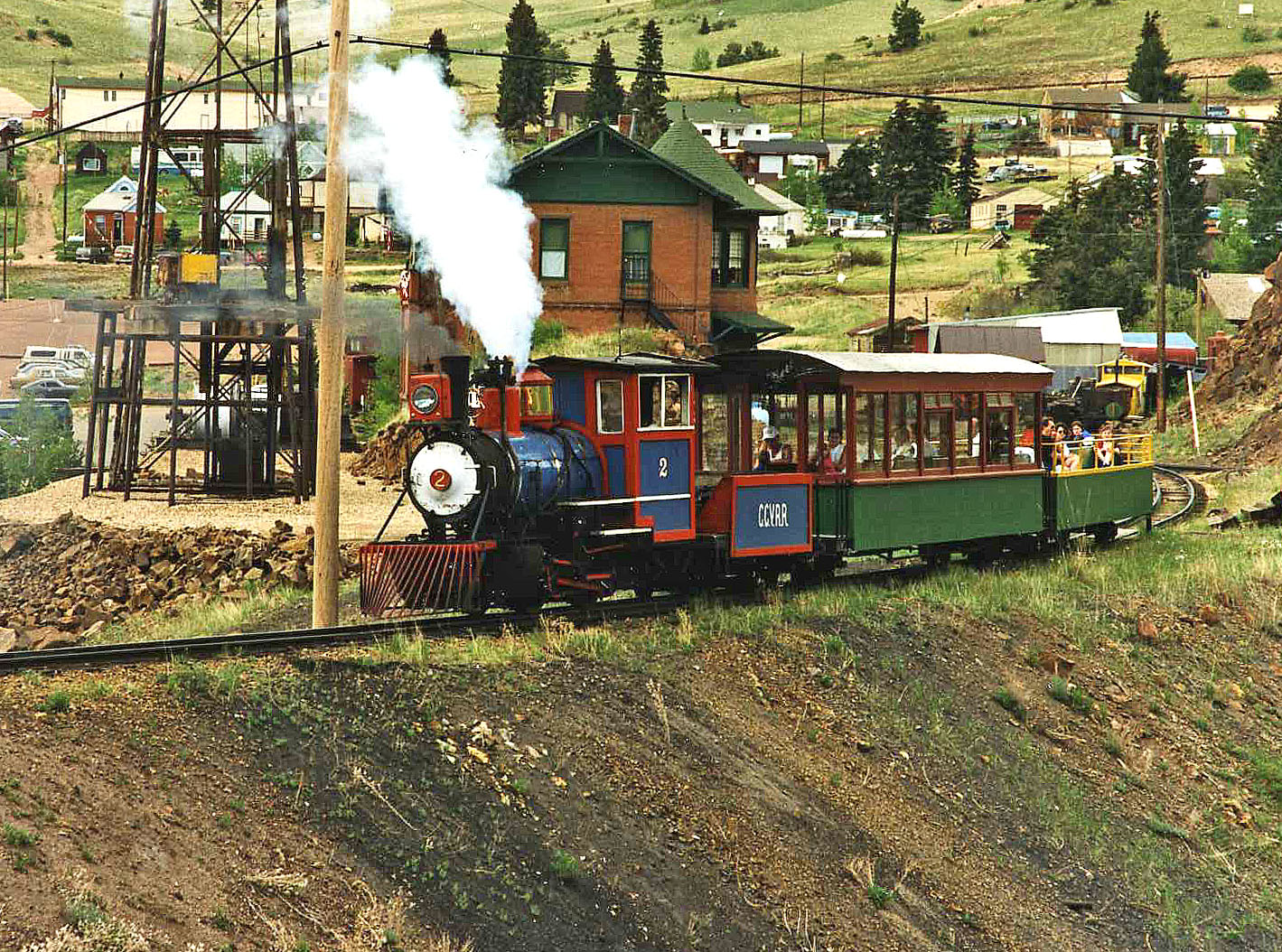 Cripple Creek and Victor N.G.R.R. Heading up hill from Cripple Creek, Colorado, on narrow gauge tracks only 2-feet wide. Engine is 1936 model built in Germany.